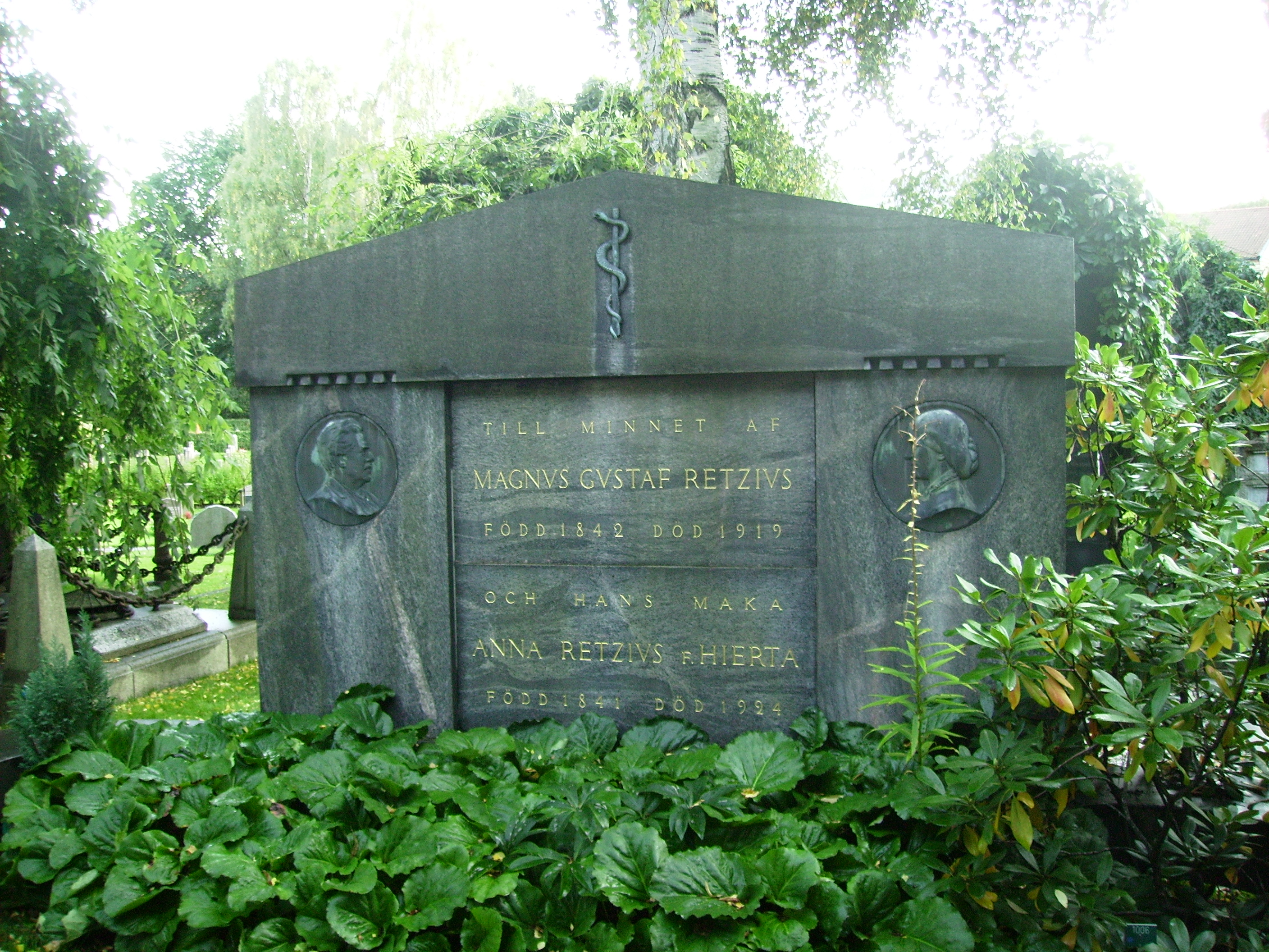 Picture of Gustaf Retzius grave at Solna churchyard